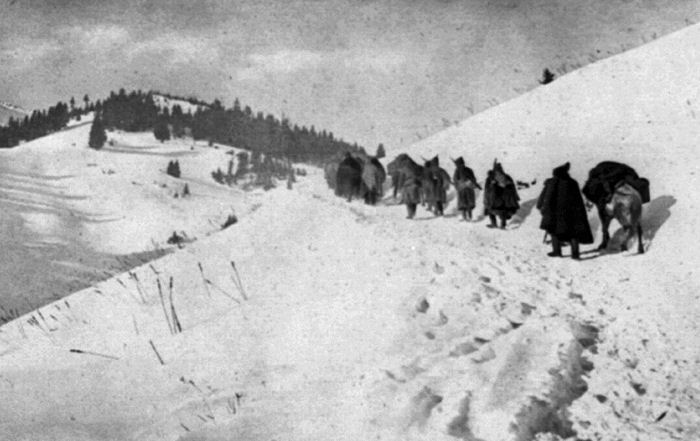 Below: In the face of an overwhelming attack by armies from three countries, rather than surrender, the entire Serb Army along with the King and a large number of civilians, conduct a perilous retreat westward through the steep snowy mountains into Albania, where they will seek Allied assistance and wait to fight another day.